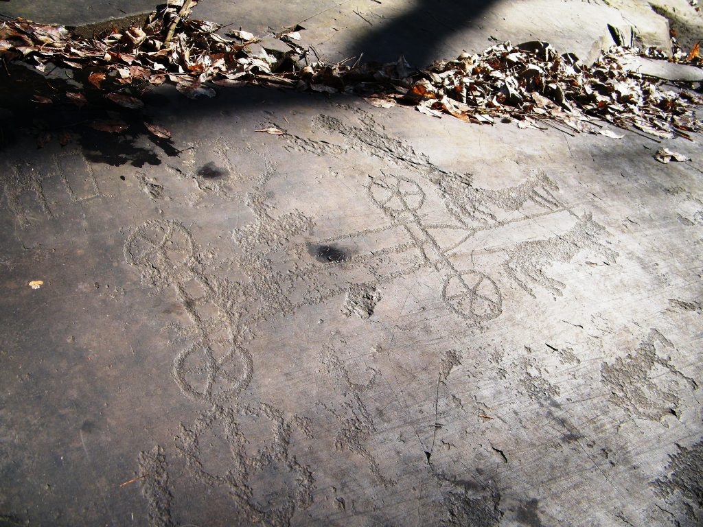 Four wheeled chariot - Còren del Valento-Naquane Rock 62 - Capo di Ponte, Val Camonica.